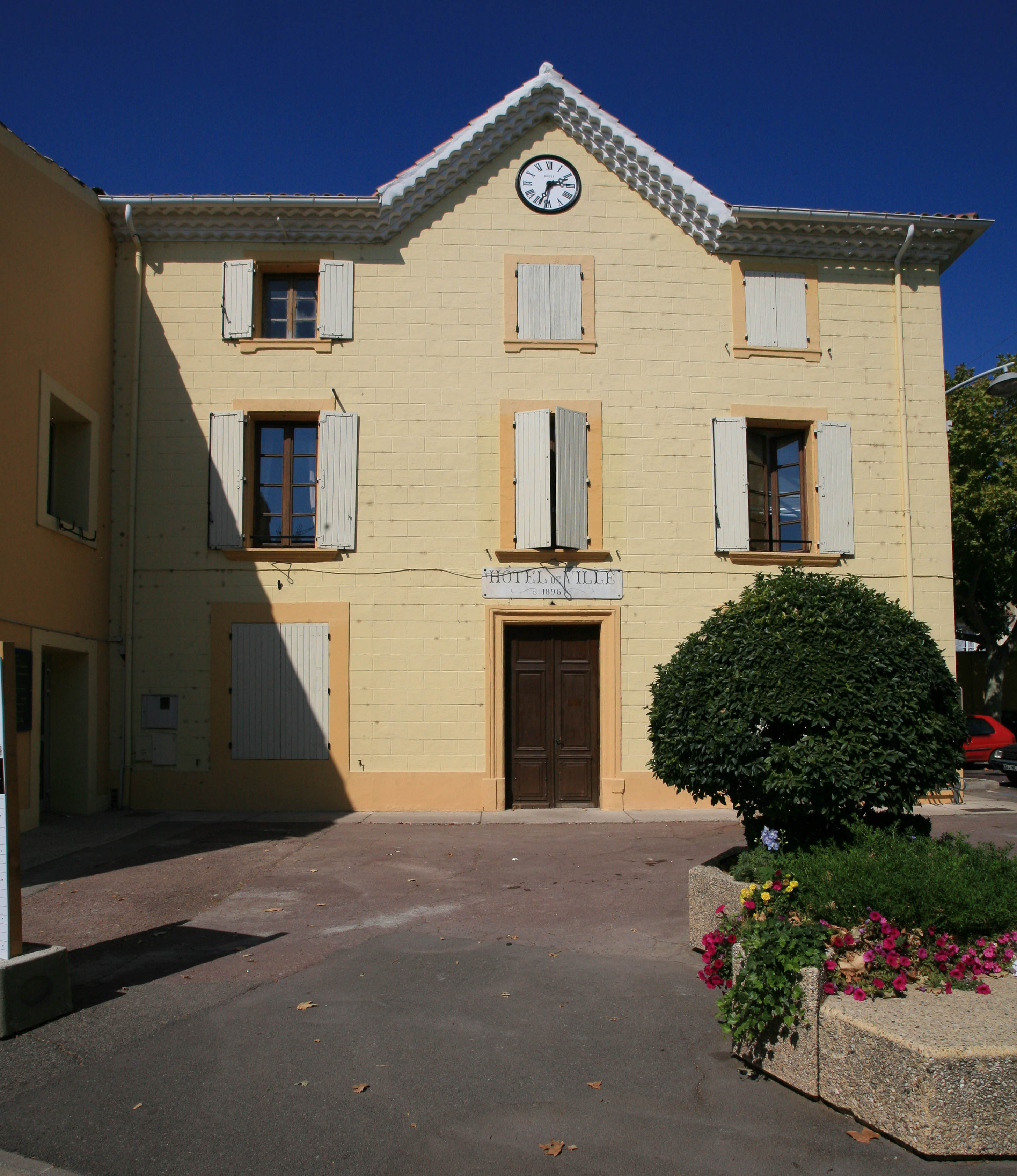 the village of Jonquieres, Vaucluse, France